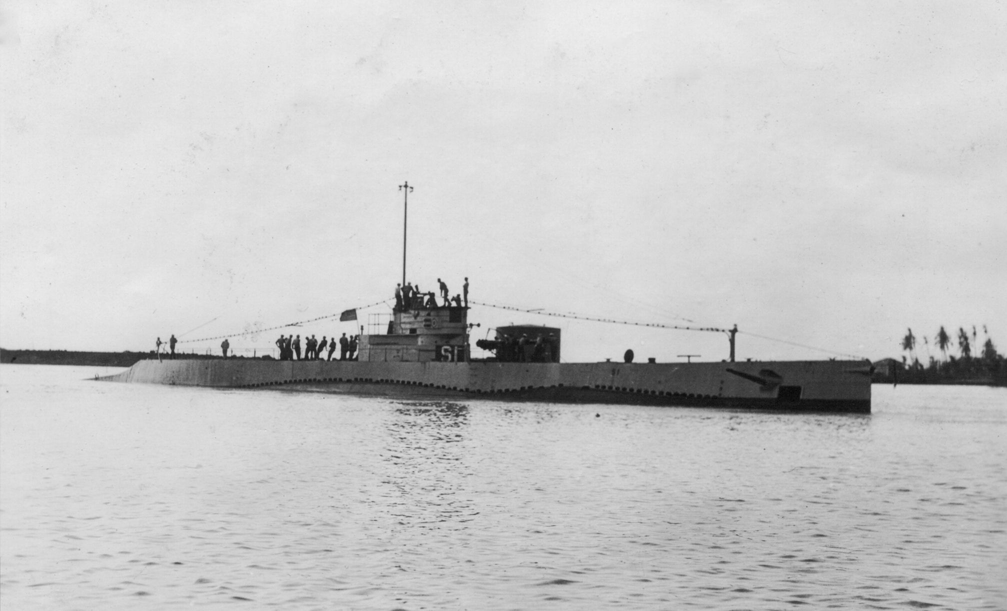 USS S-1 (SS-105) in an undated photo.